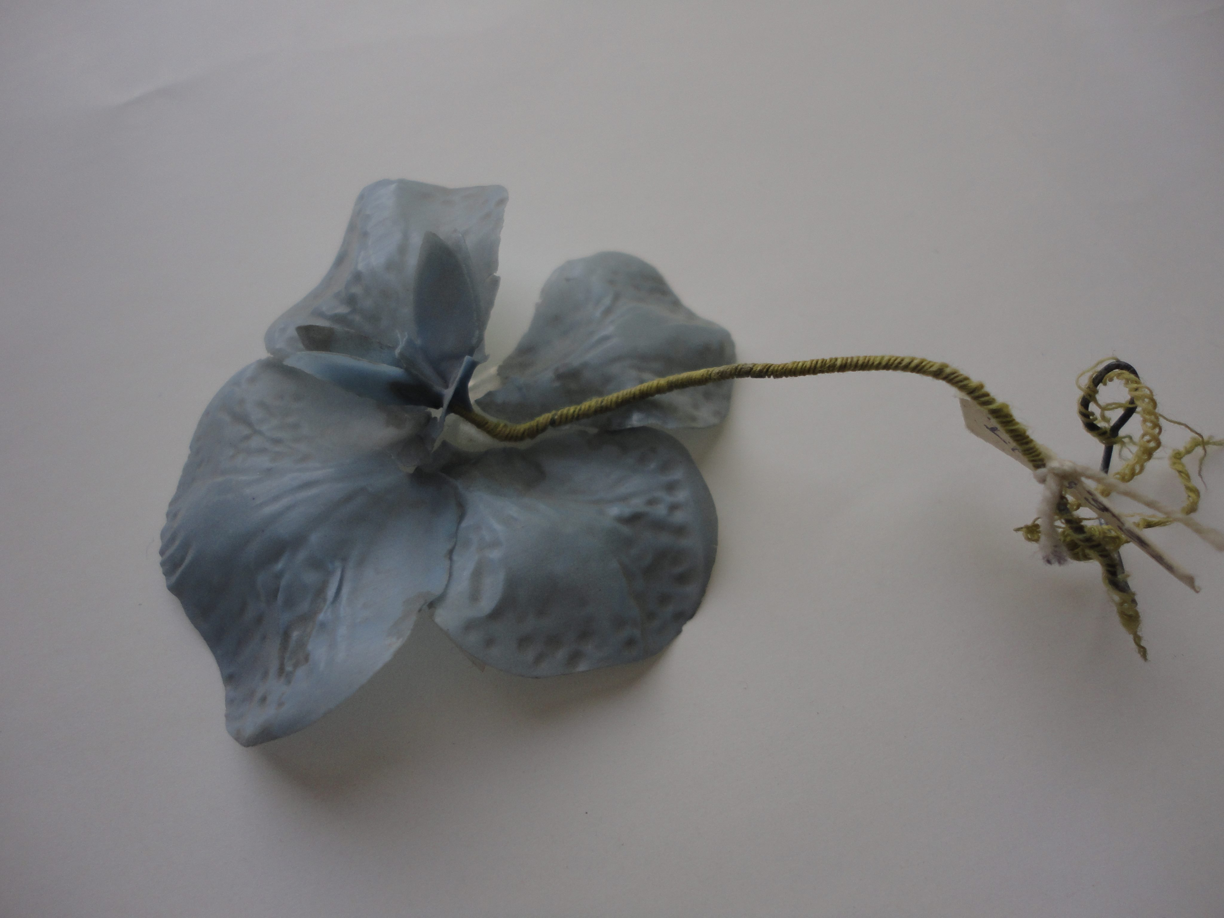 Wax flower taken from Komitas Vardapet's burial ceremony